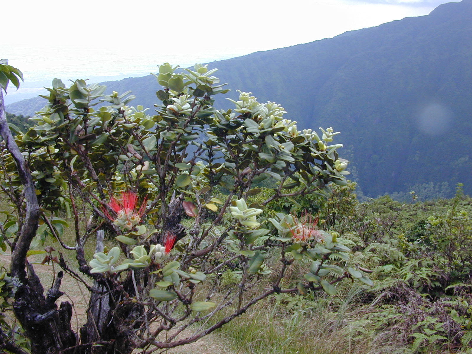 Metrosideros polymorpha (furry dwarf ohia). Location: Maui, Waihee Ridge Trail